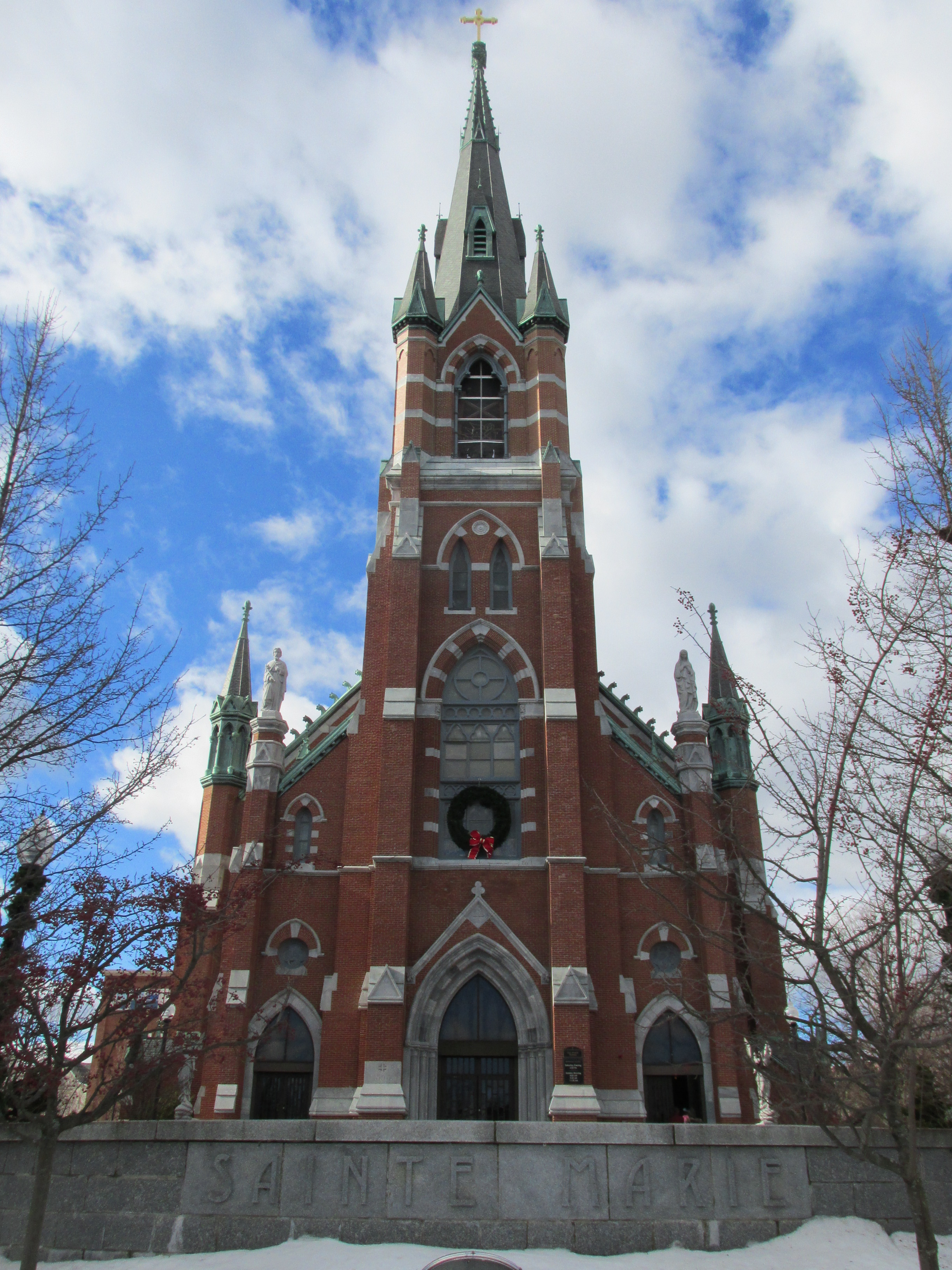 Ste Marie Church, Manchester New Hampshire - 2014